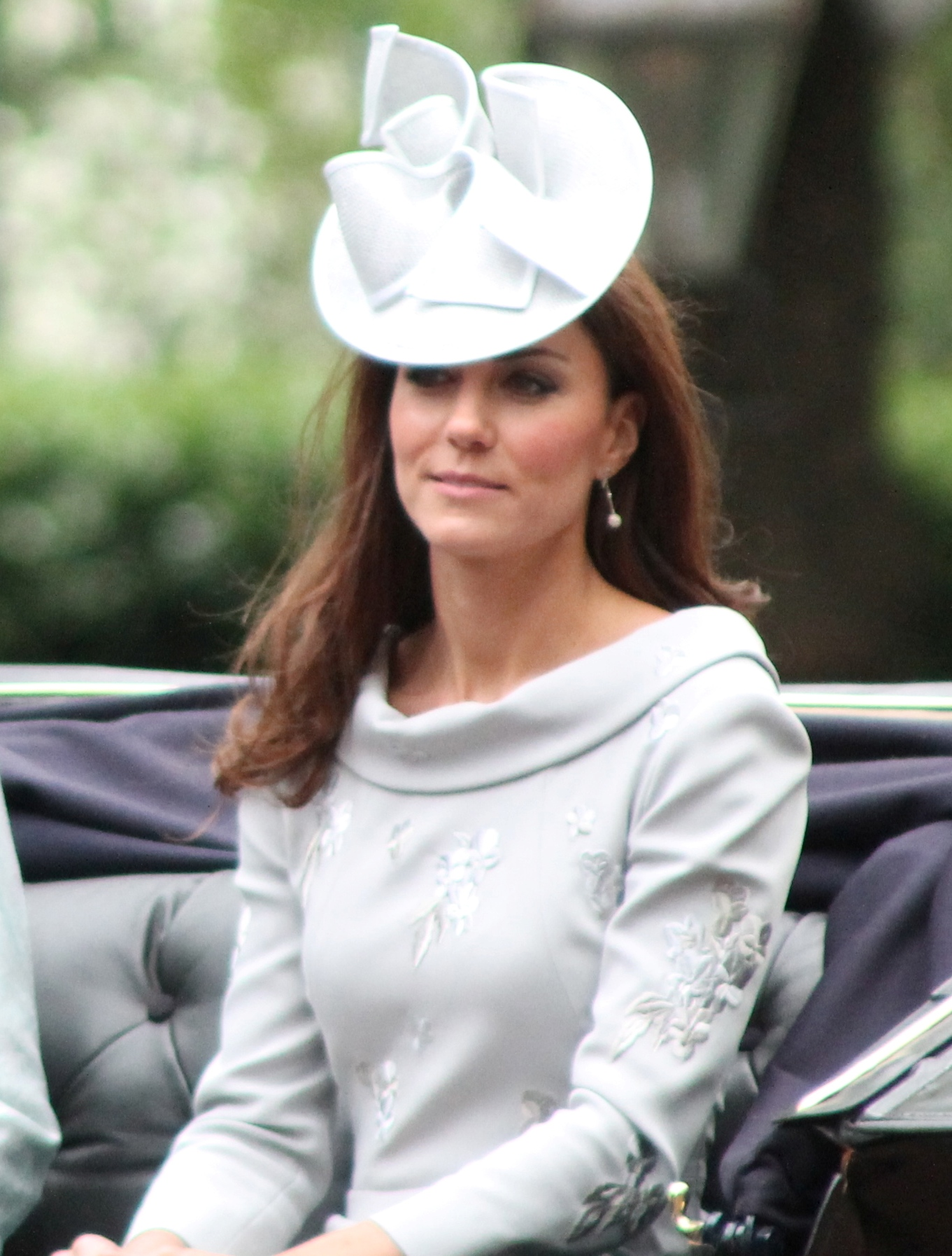 Trooping the Colour procession; The Duchess of Cambridge